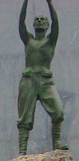 Monumento ai caduti (città di San Cataldo, provincia Caltanissetta)(4).jpg